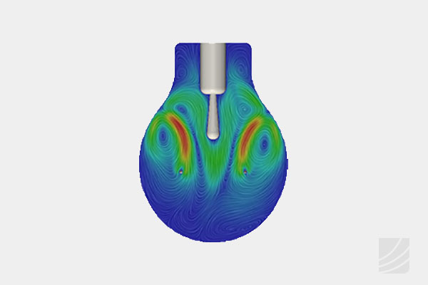 Heat transfer takes place as a result of fluid movement, caused by buoyancy and/or external sources like a fan or heater - in this case the convective flow inside a light bulb is seen due to heated filament.